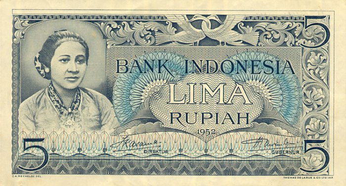 Indonesian currency IDR 5 with photo of Kartini, issued in 1950 after Independence, dicetak oleh Thomas De La Rue & Co.